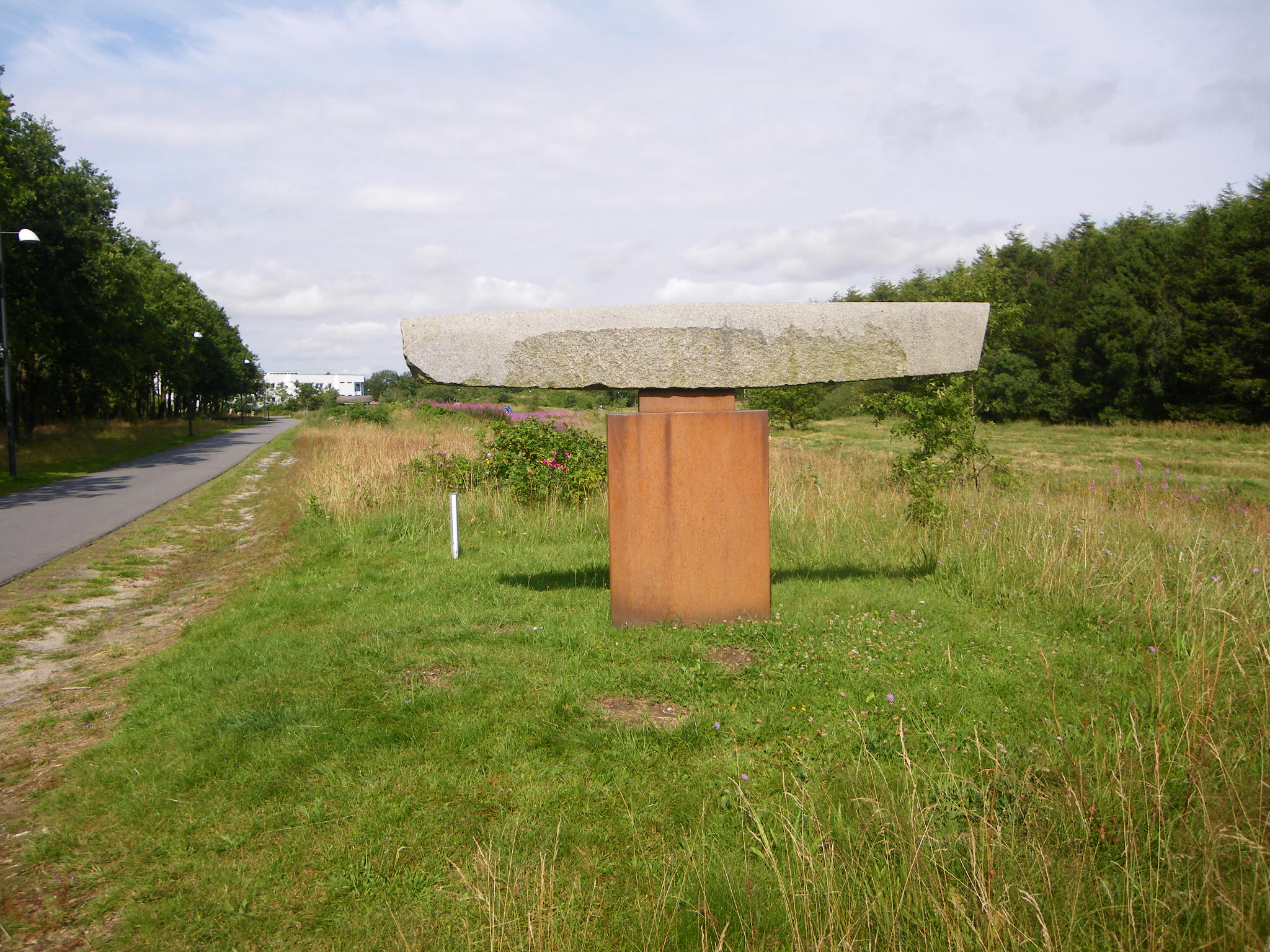 Thorkild Hoffmann, Horizon, 1995